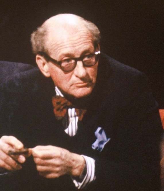 Anthony Howard (left) and Lord Lambton (right) appearing on After Dark on 2 February 1991. Other guests included Duncan Campbell, Jane Moore and Clare Short. More here.